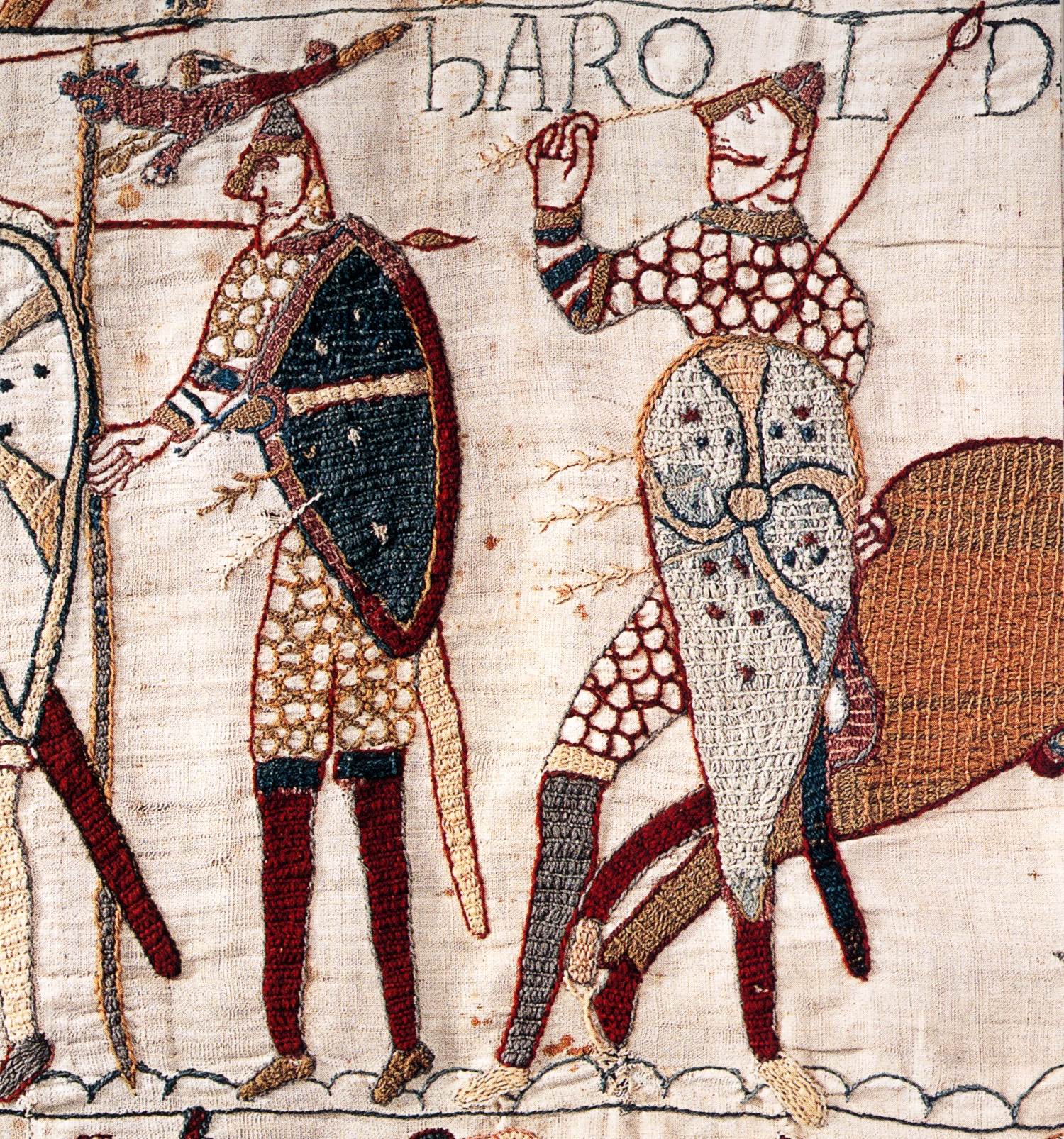 Panel from the Bayeux Tapestry - this one depicts the death of King Harold at the Battle of Hastings. Scanned from Lucien Musset's The Bayeux Tapestry ISBN 9781843831631 pp. 260-261.